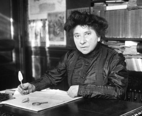 French feminist Hubertine Auclert (1848-1914)